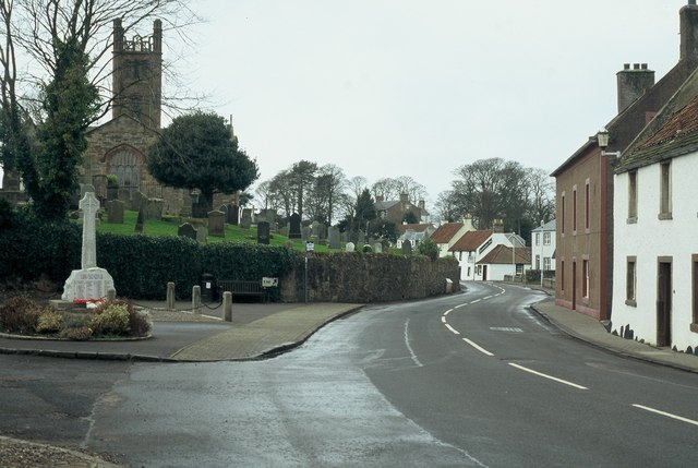 Kilconquhar, Fife Kilconquhar is on the route to my roots. I came here to look at some gravestones and found the place dead quiet.Not a soul moved, and that was on Main street.It's a very nice little village with a war memorial a church and a fine pub.